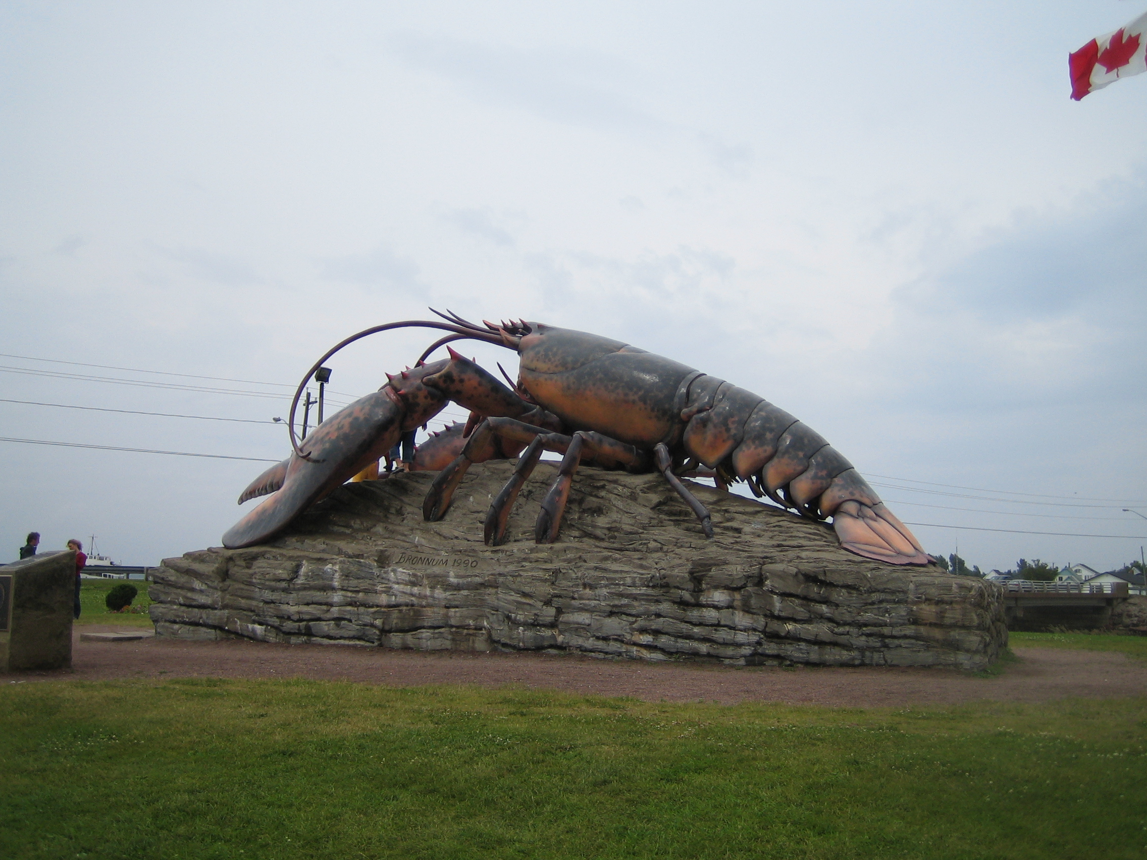 The world's largest lobster sculpture located in Shediac, New Brunswick.